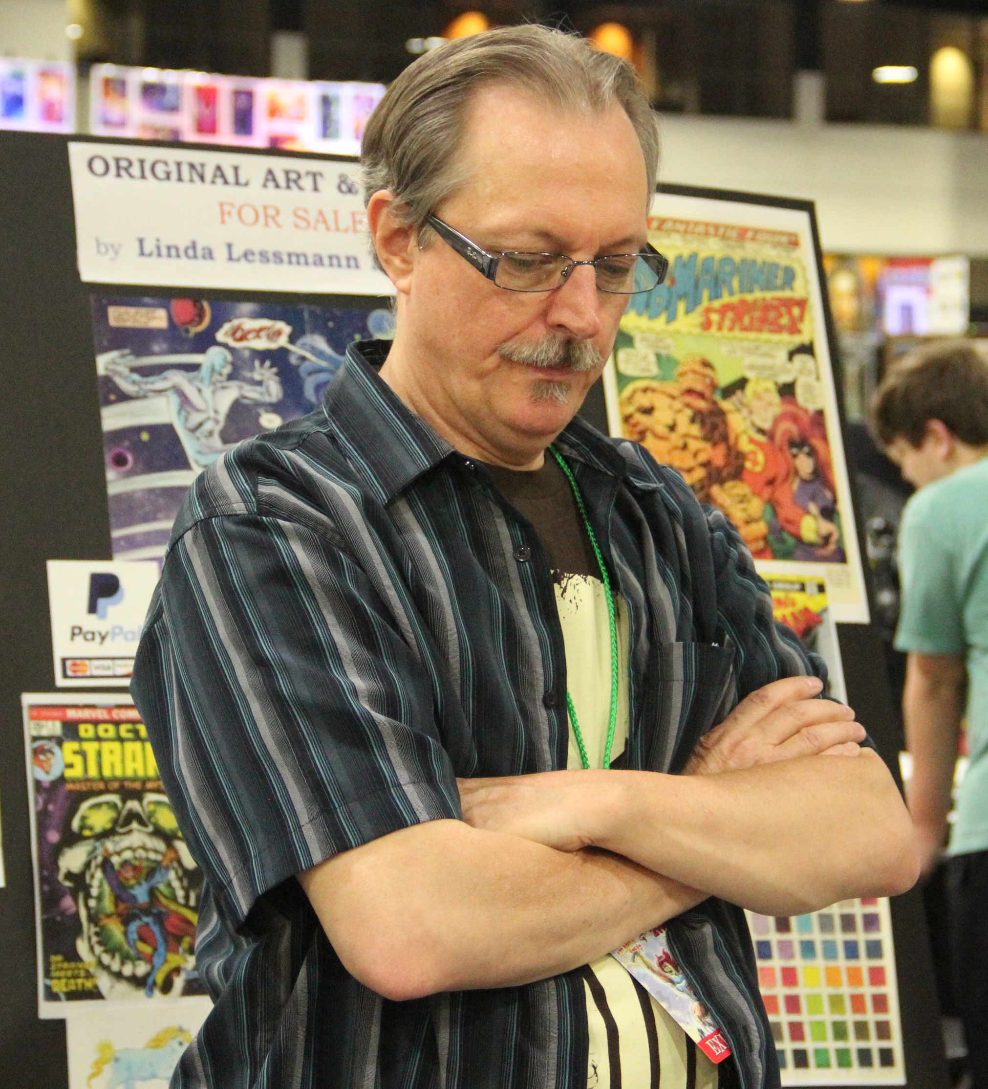 Atlanta Comic Con 2018 - Bill Reinhold